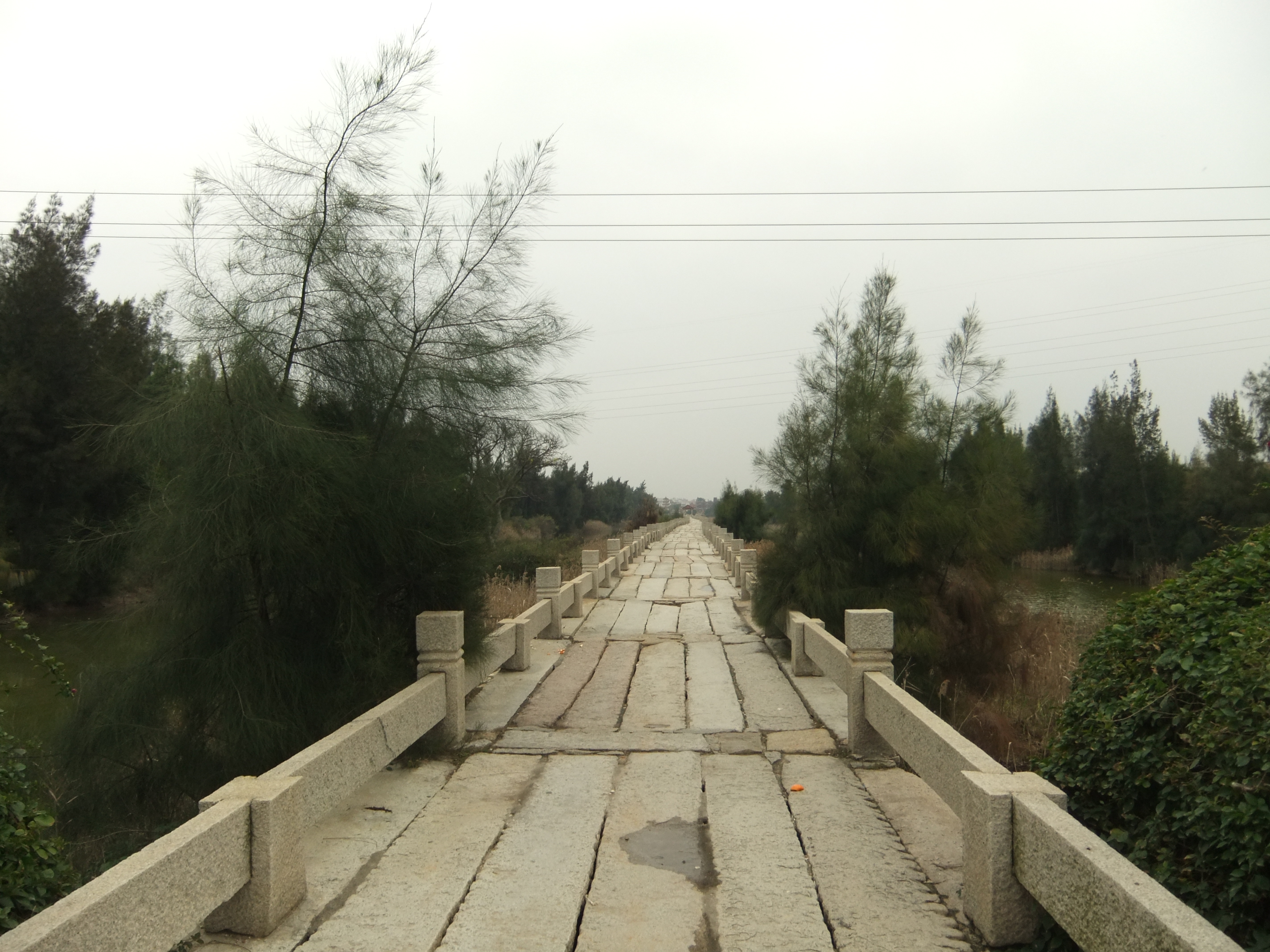 Looking from teh SHuixin Pavilion toward the Shuixian Temple